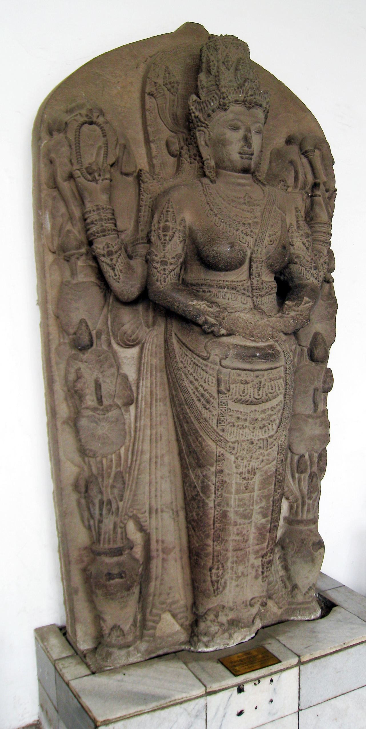 The statue of the Hindu goddess Parvati, the consort of Shiva. The statue represent Tribhuwanottunggadewi, queen of Majapahit (1328-1350). The statue originated from Rimbi temple, East Java, circa 14th century CE. The statue now is the collection of National Museum of Indonesia, Jakarta.